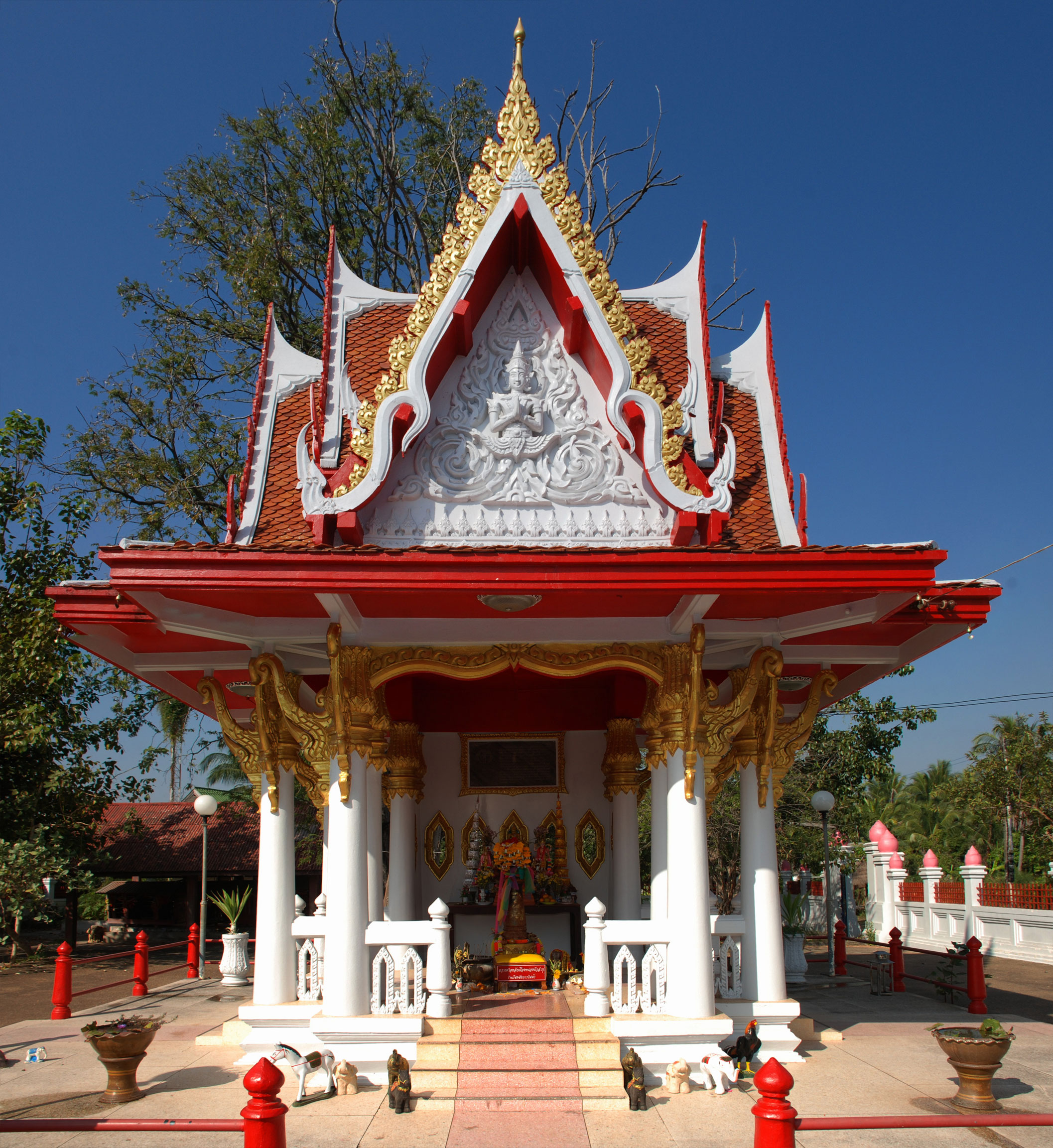 Lak Mueang shrine of Nongbua Lamphu